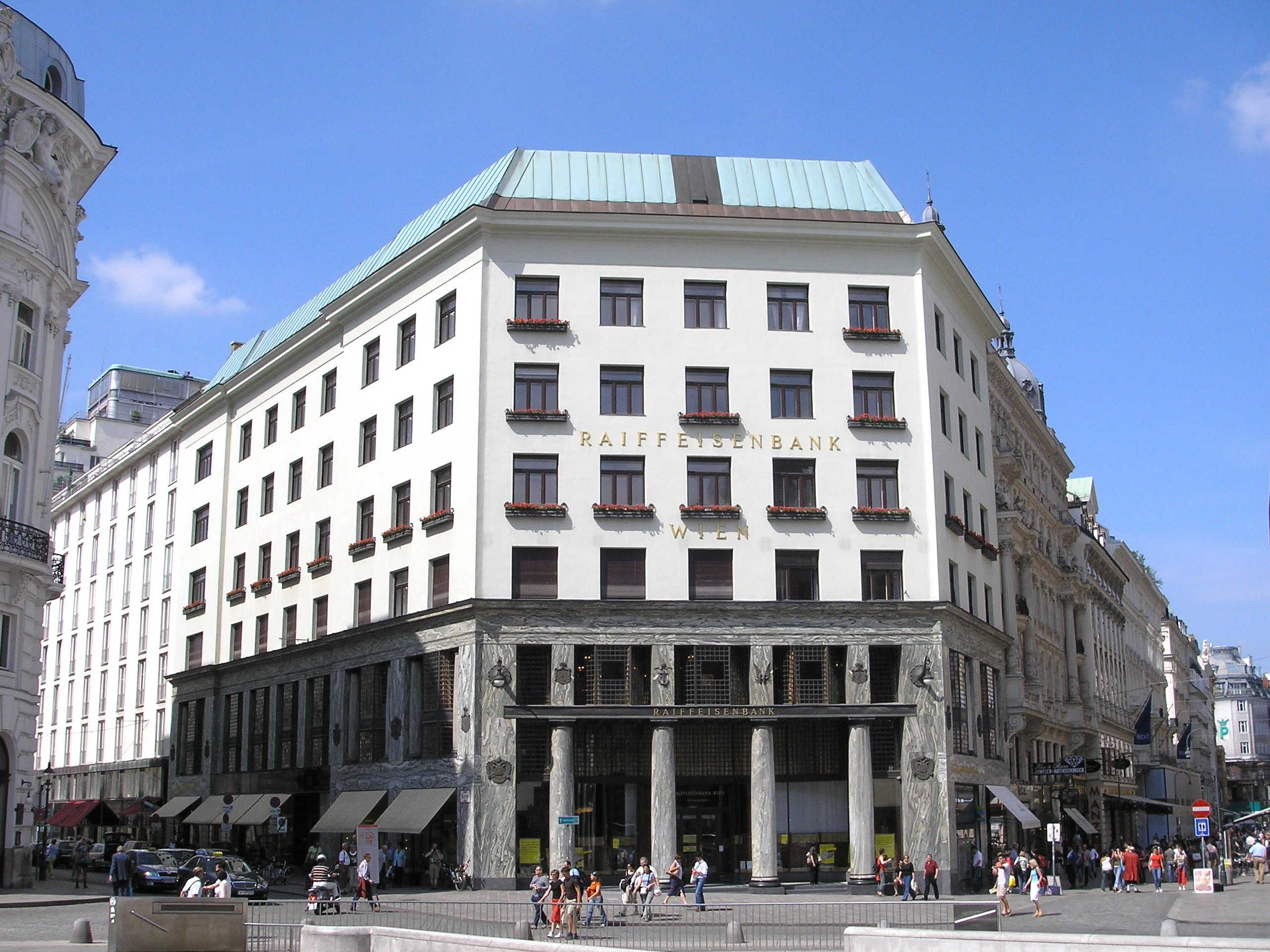 View of the Looshaus in Vienna.